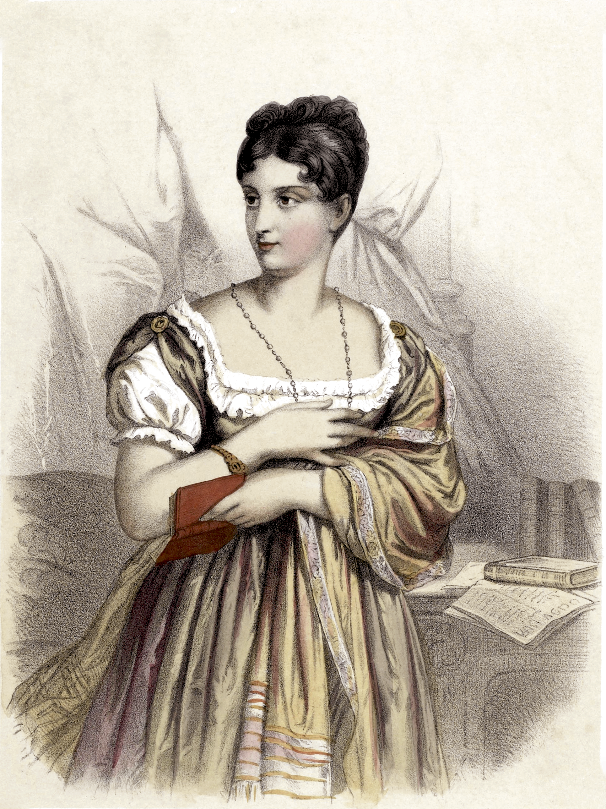 Mademoiselle George (1787–1867) by Jules Champagne.